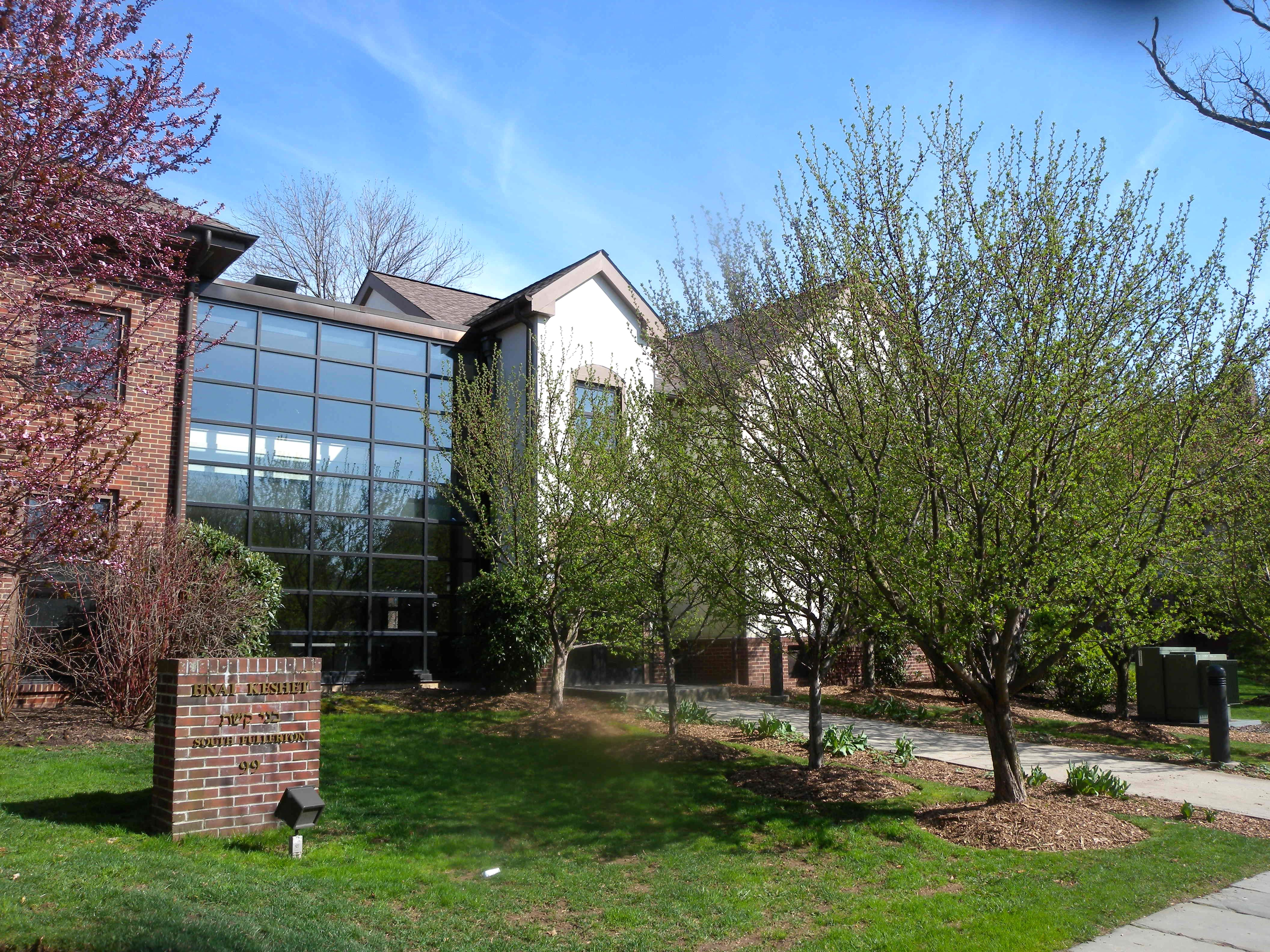 Looking southeast at Bnai Keshet on a sunny early afternoon.